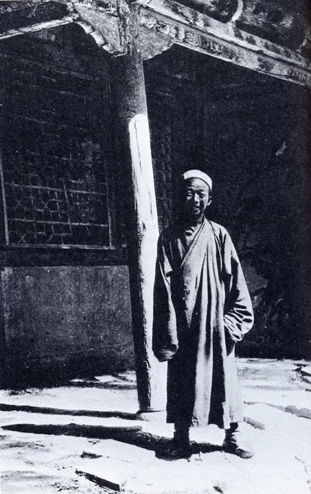 Abbot Wang; Chinese Traditional: 王圓籙